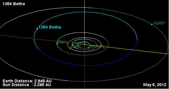 1354 Botha orbit, and his position on 05 May 2012 (NASA Orbit Viewer applet)